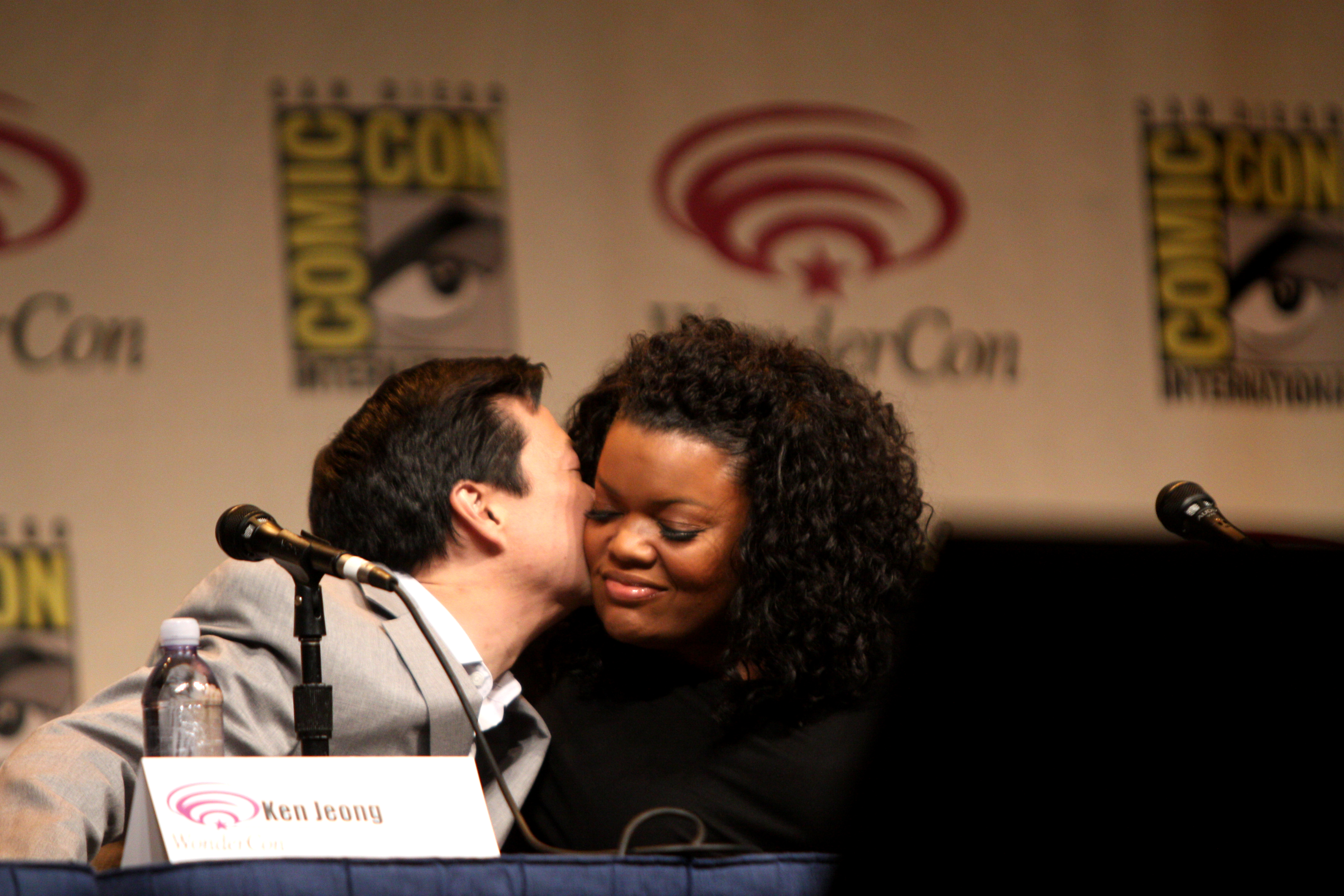 Ken Jeong and Yvette Nicole Brown speaking at the 2012 WonderCon in Anaheim, California.